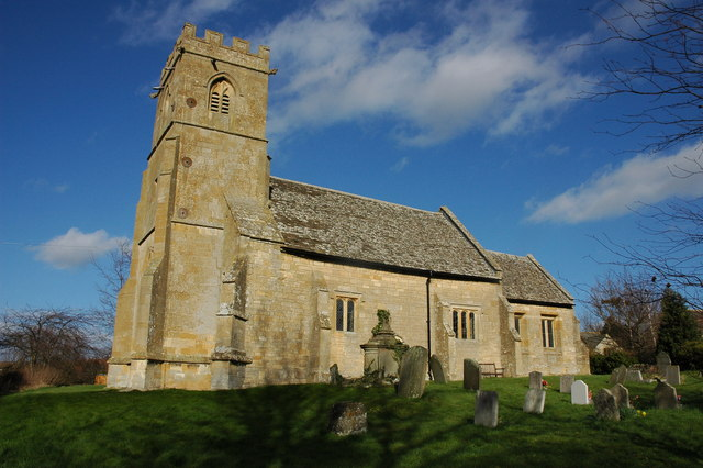 Teddington Church Teddington church is dedicated to St Nicholas. The church was restored in 1898, however, parts of the building date back to Norman times. The parish of Teddington is now in Gloucestershire, it was transferred from Worcestershire in 1931.